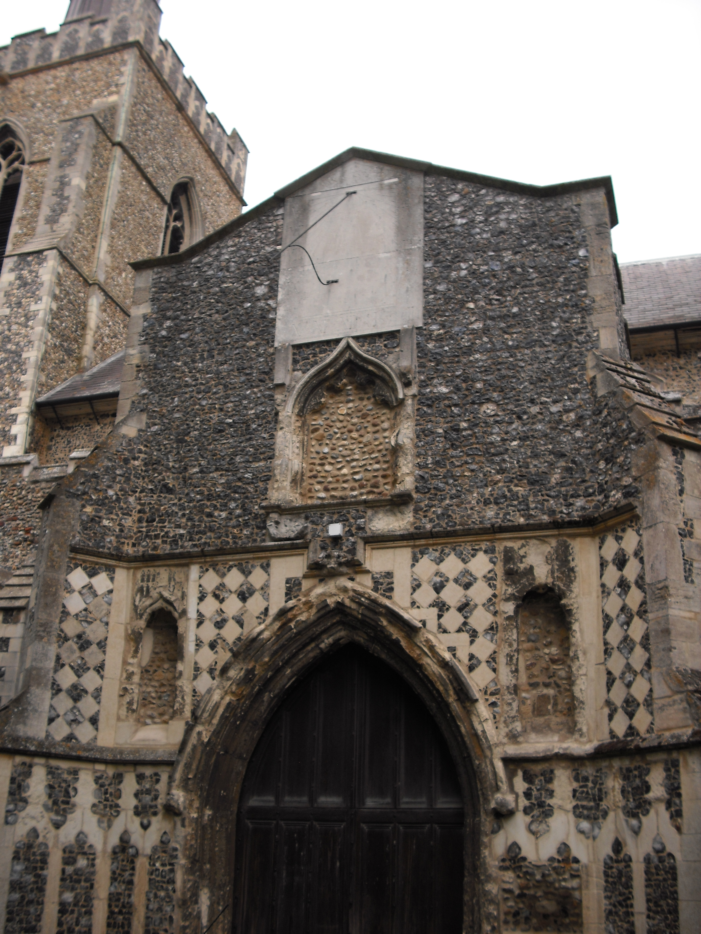 File:St Peter and St Mary's church, Stowmarket, Suffolk - south porch